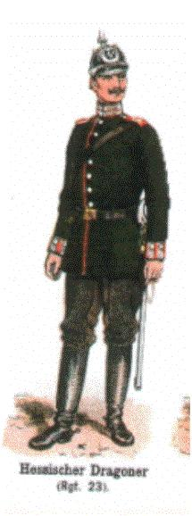 1st Hessian Life Guard Dragoons (23rd Dragoons in the german army)